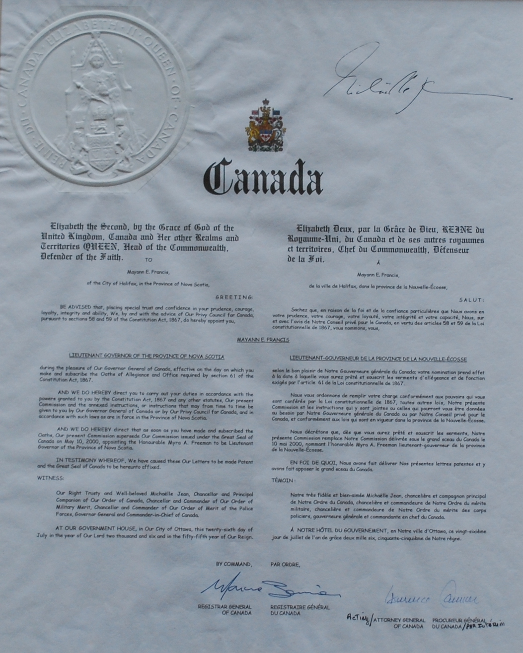 Lieutenant Governor's Commission of Appointment, 2006. Appointing Mayann E. Francis as Lieutenant Governor of Nova Scotia. Laser printed text on bond paper, sealed under the great Seal of Canada.